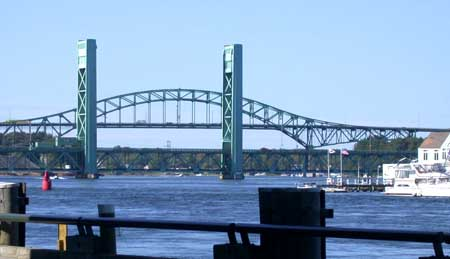 Piscataqua River at Portsmouth (taken Sept. 20, 2004) ©l 2004 Matthew Trump